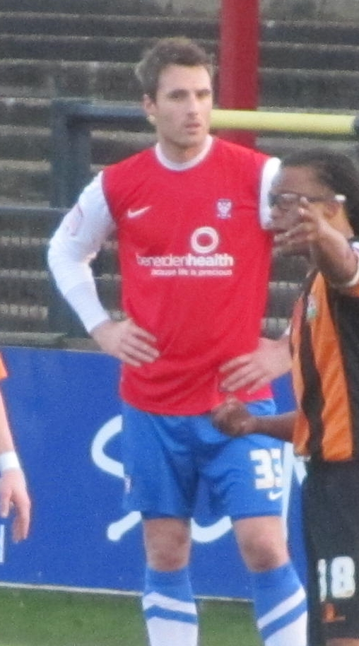 Alex Rodman playing for York City against Barnet at Bootham Crescent, York on 16 February 2013